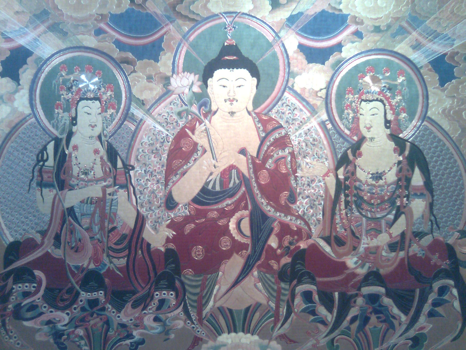 Bhaiṣajyaguru, collection of Mrs.Han Sang-soo, at the Korean Embroidery exhibition in National Museum, Jakarta, Indonesia, October 18th, 2009.